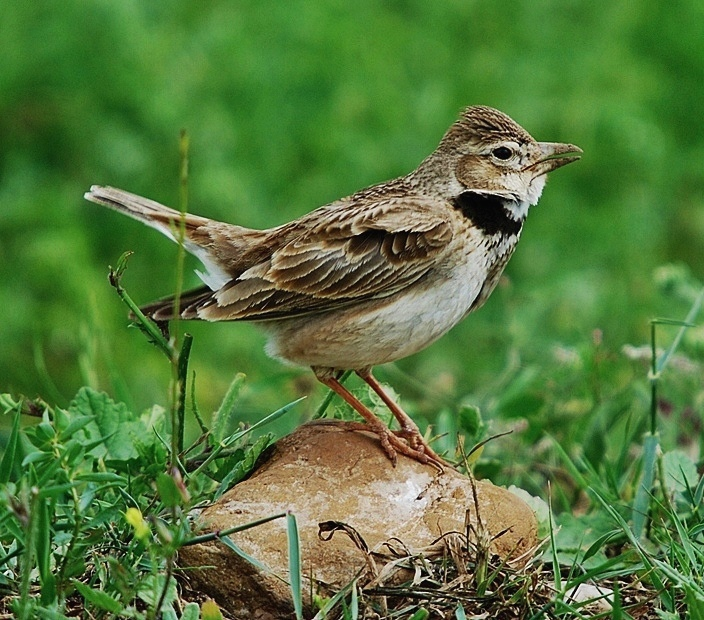 Calandra Lark (Melanocorypha calandra).